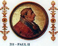 Portrait of Pope Paul II in the Basilica of Saint Paul Outside the Walls, Rome